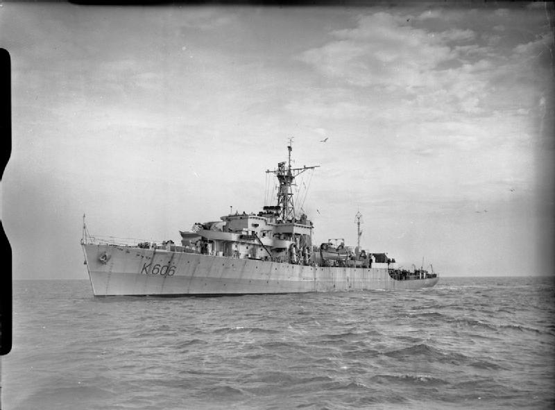 Photograph of British Bay class anti-aircraft frigate HMS Bigbury Bay (K606).